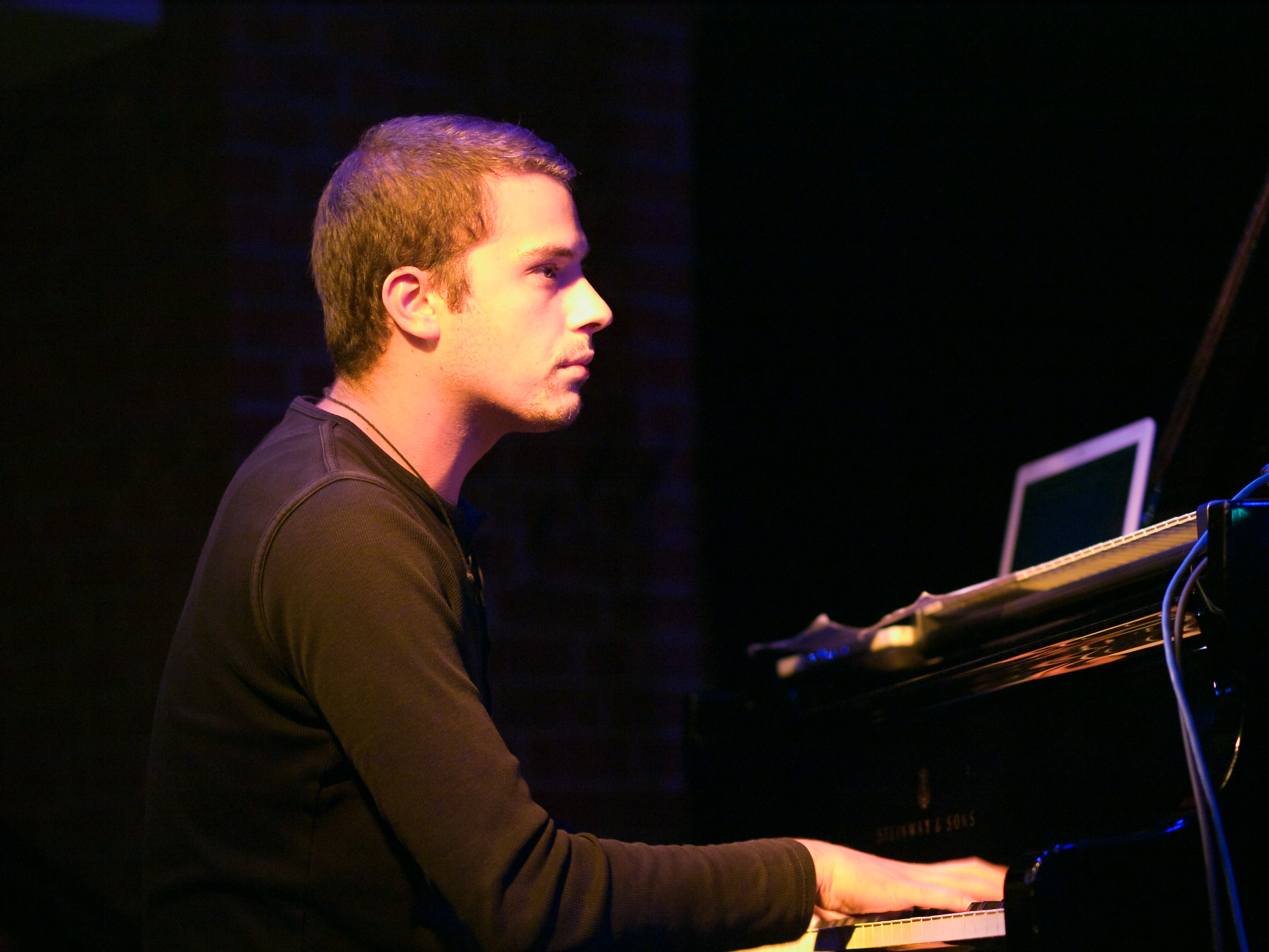 Simon Seidl, Jazz pianist; Picture taken in Jazz Club Unterfahrt, Munich/Bavaria